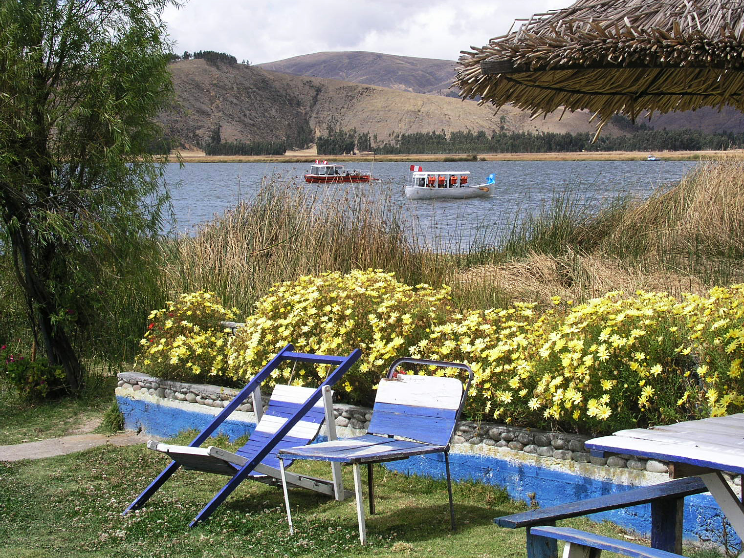 Lake "Laguna de Paca", Jauja, Valley of Mantaro, Junín, Peru.